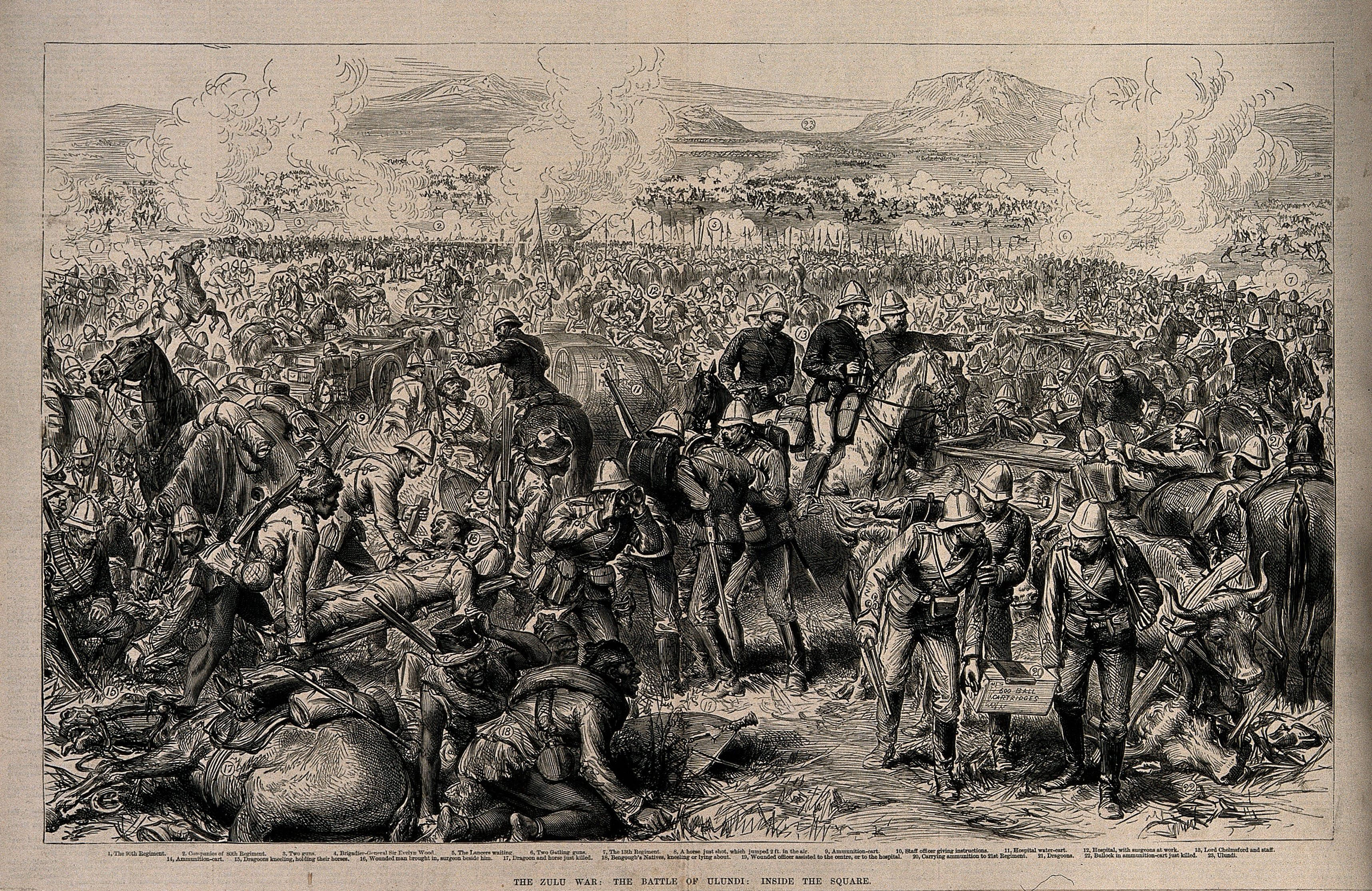 Battle of Ulundi, part of the Zulu War, South Africa: with a numbered key. Wood engraving. Iconographic Collections